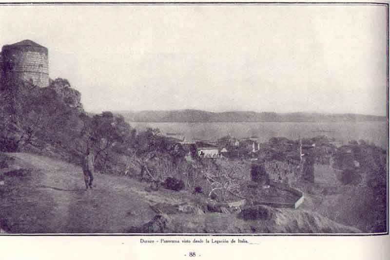 Panoramic view on Durazzo.